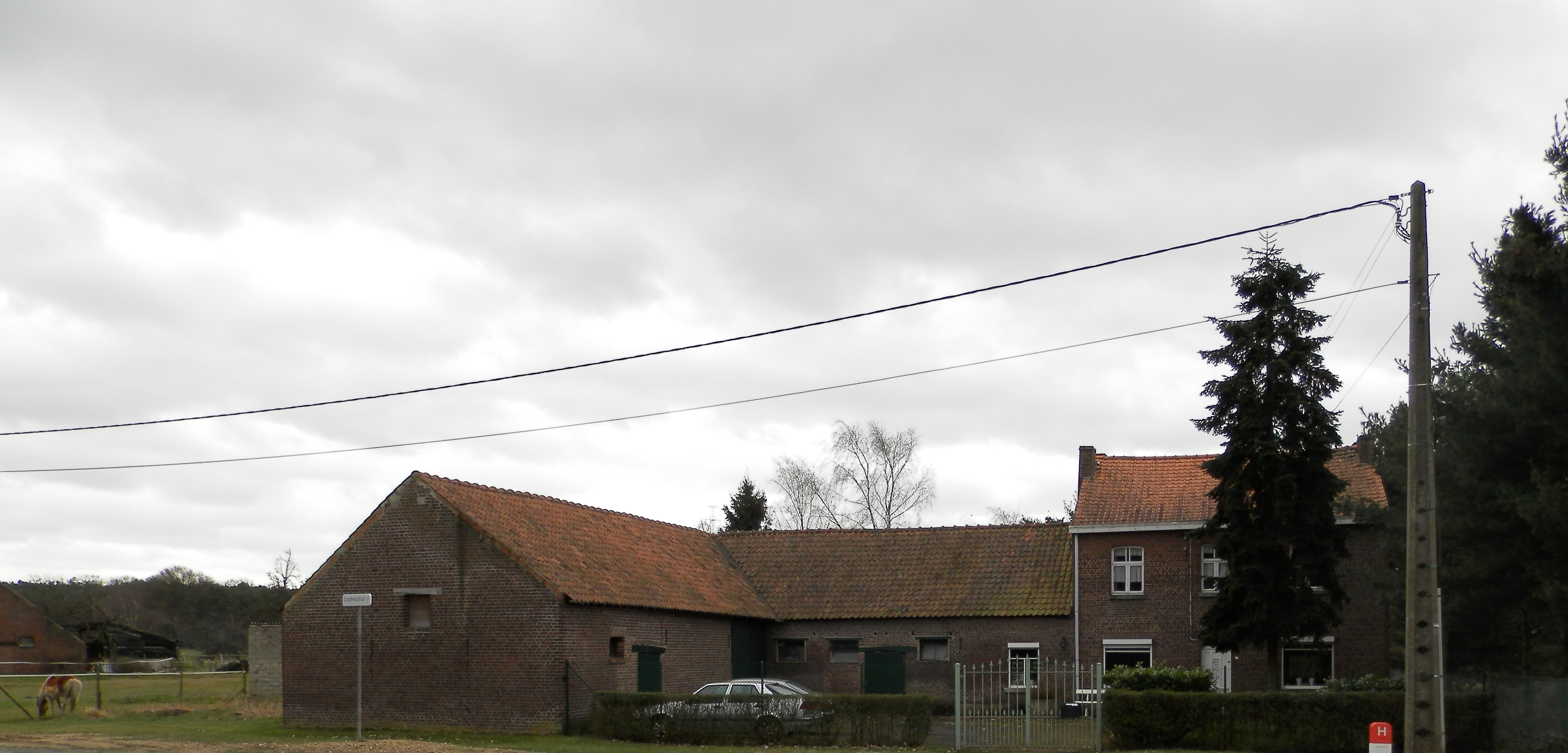 Langerlo